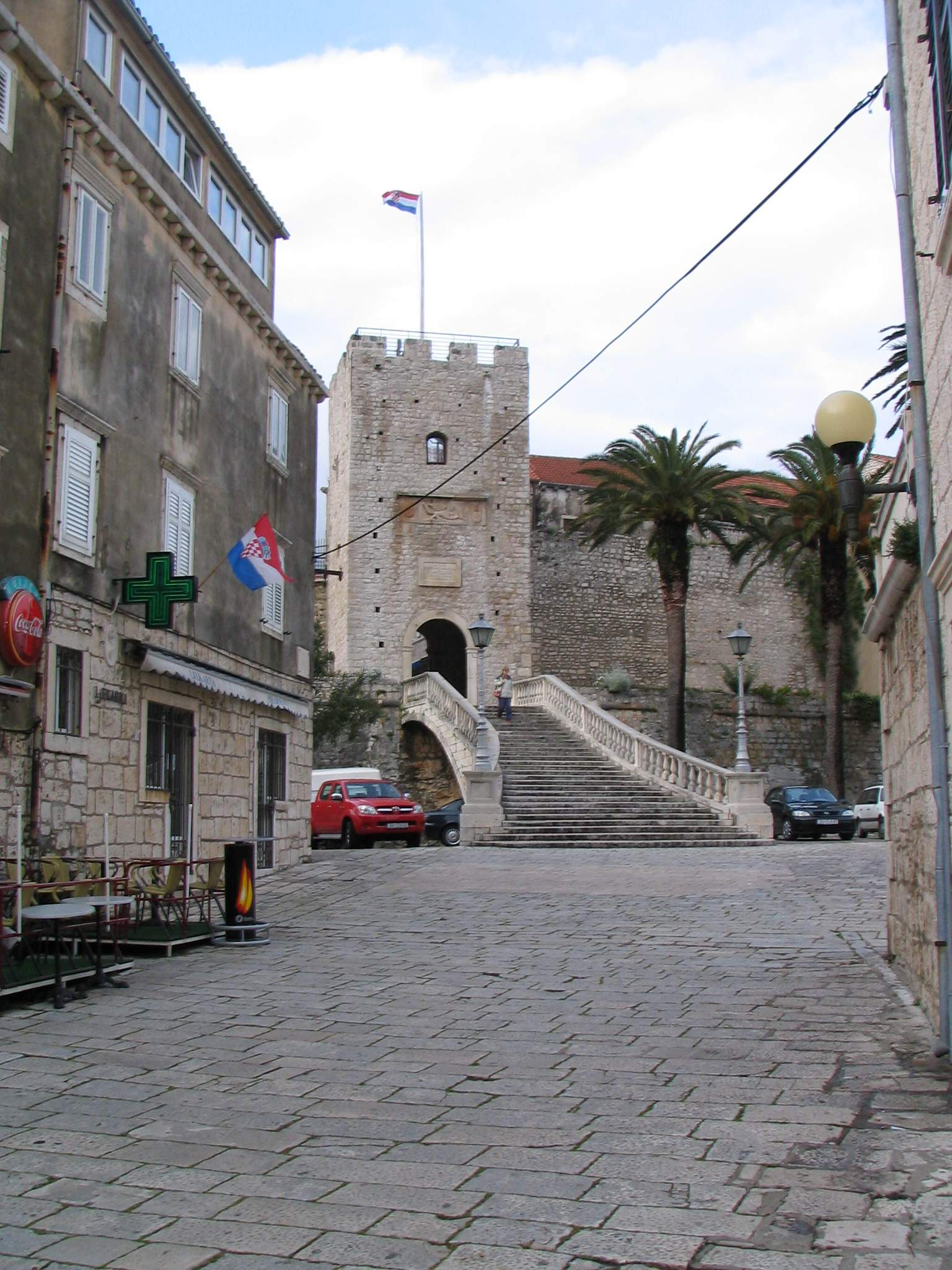 Gate tower, Korcula old town (Croatia). Own photo.